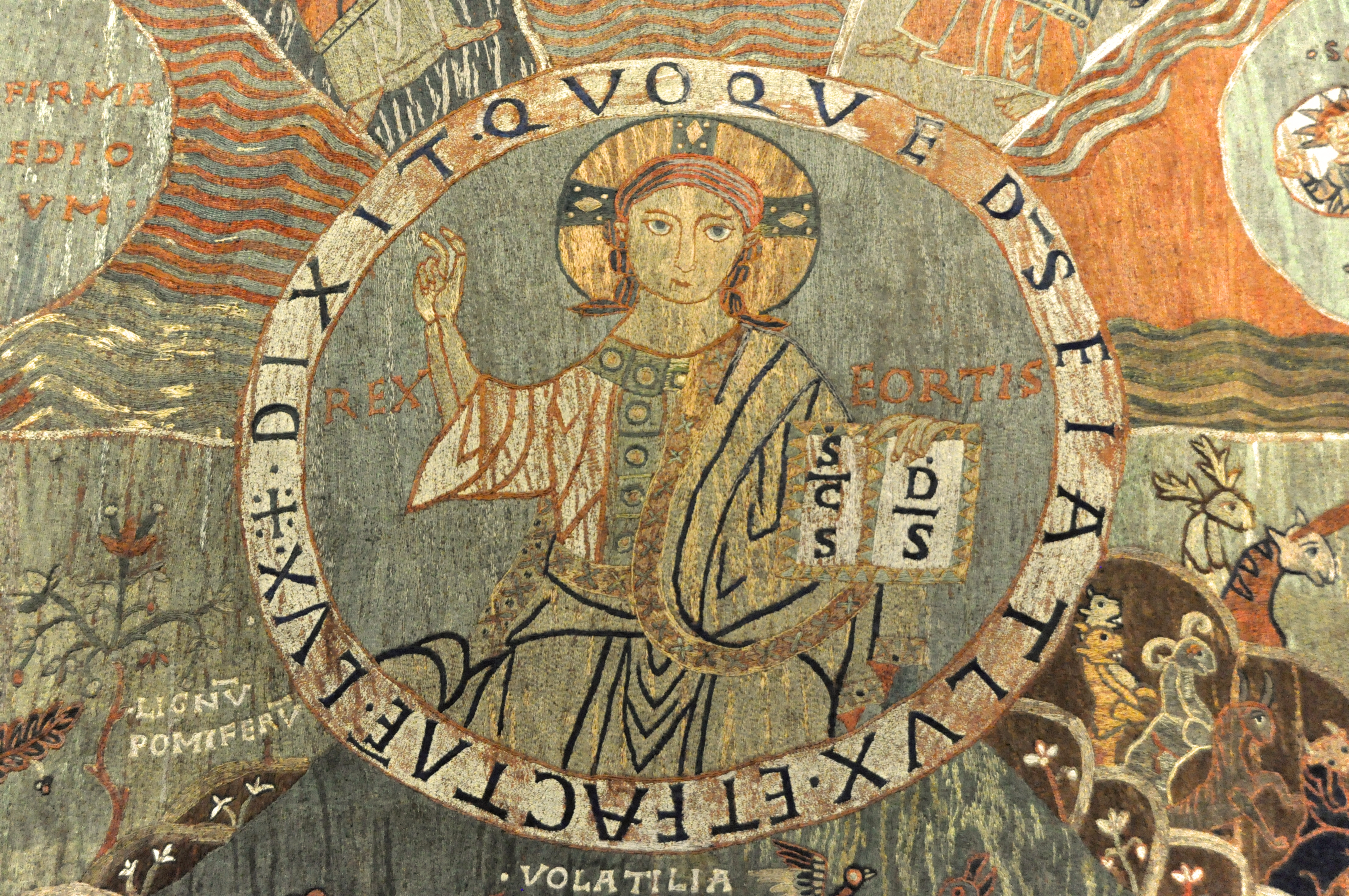 Tapis de la creacio. Creation Tapestry. Needlework. Cathedral of Girona. 11th C. Cathedral of Girona